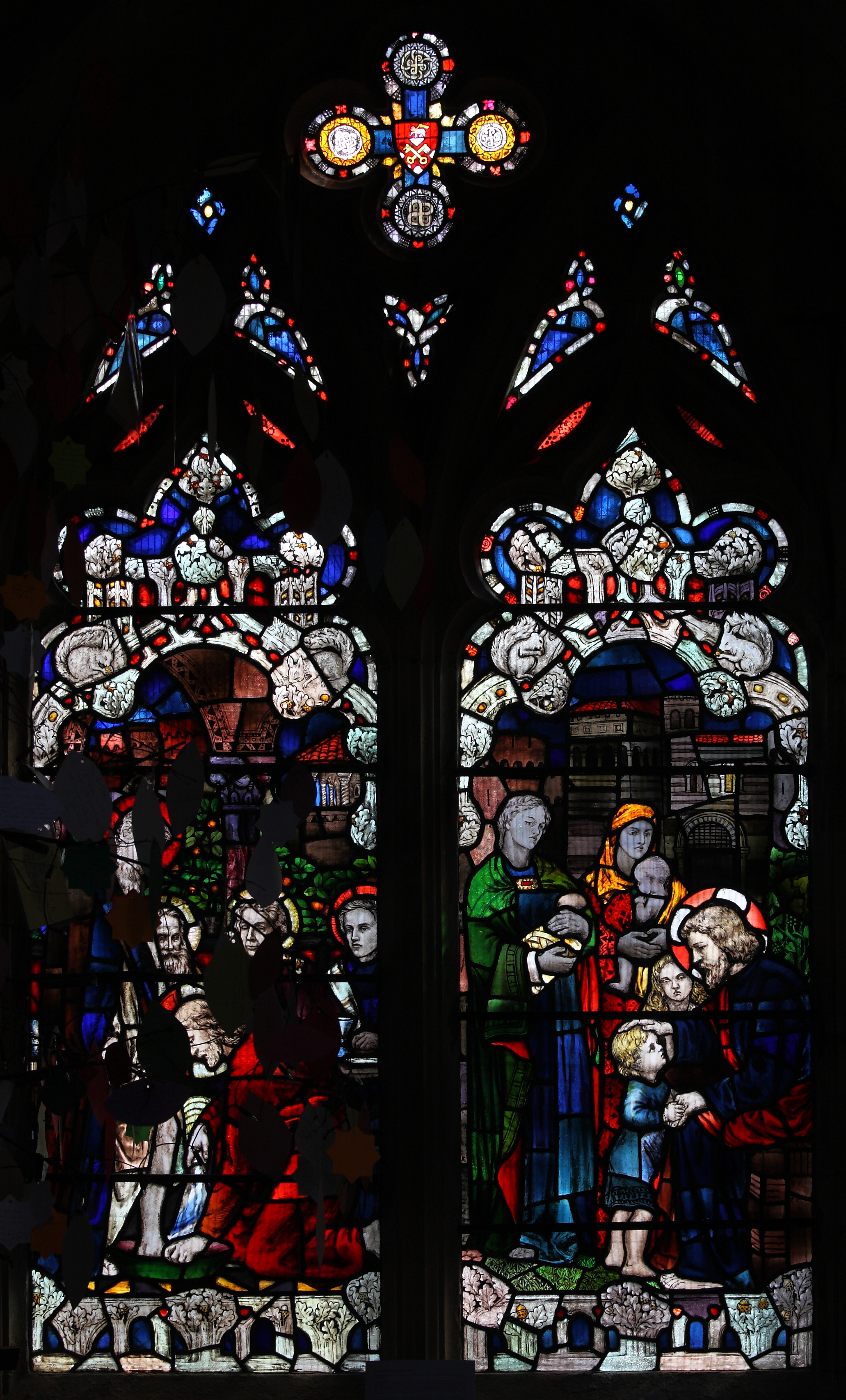 Stained glass window in St Andrew Aysgarth, Yorkshire